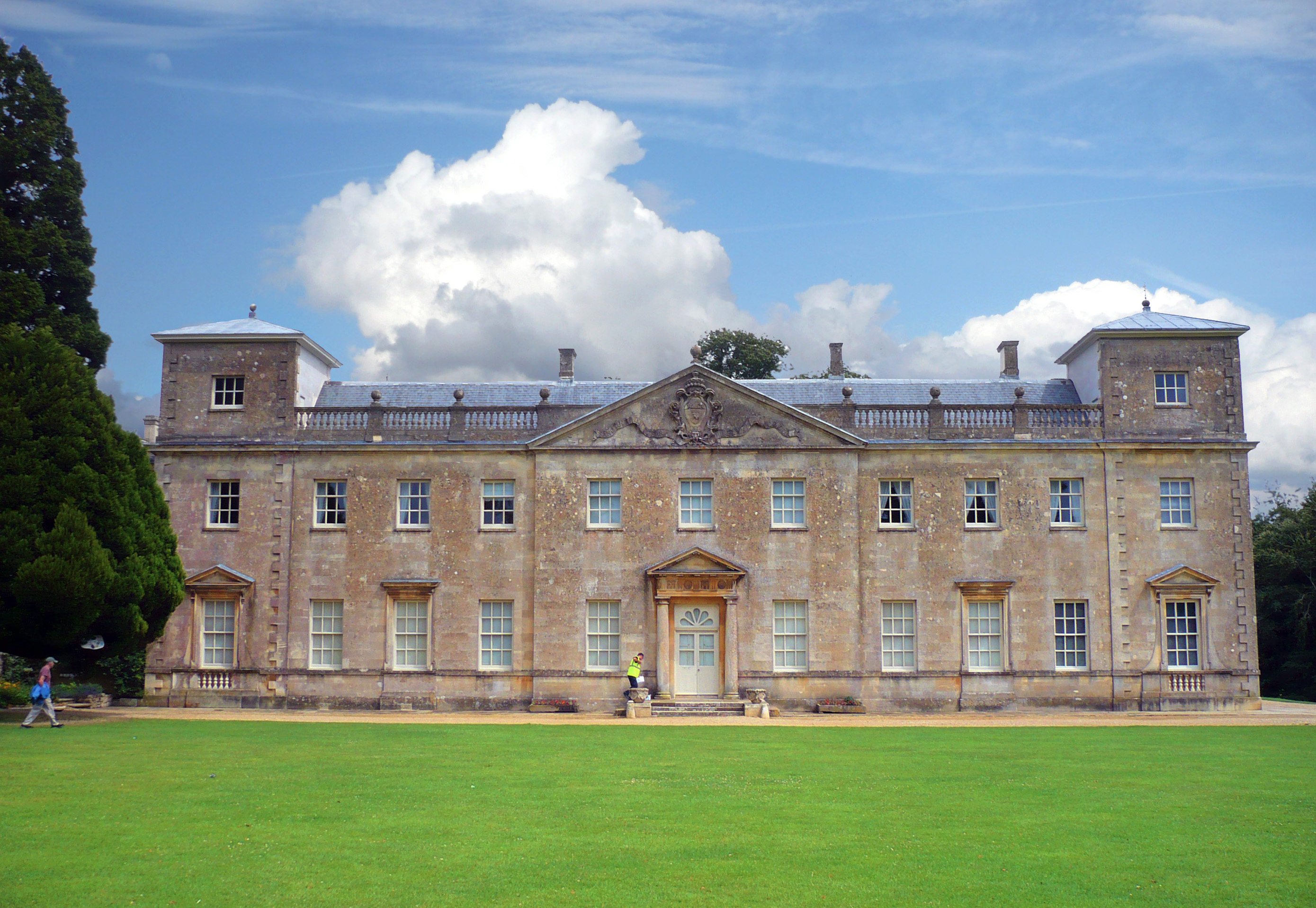 The Lydiard House, the former residence of the Viscounts Bolingbroke, in the Lydiard Park, Swindon, Wiltshire, UK.